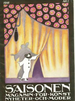 Saisonen. Magazine for art, fashion and news.1916